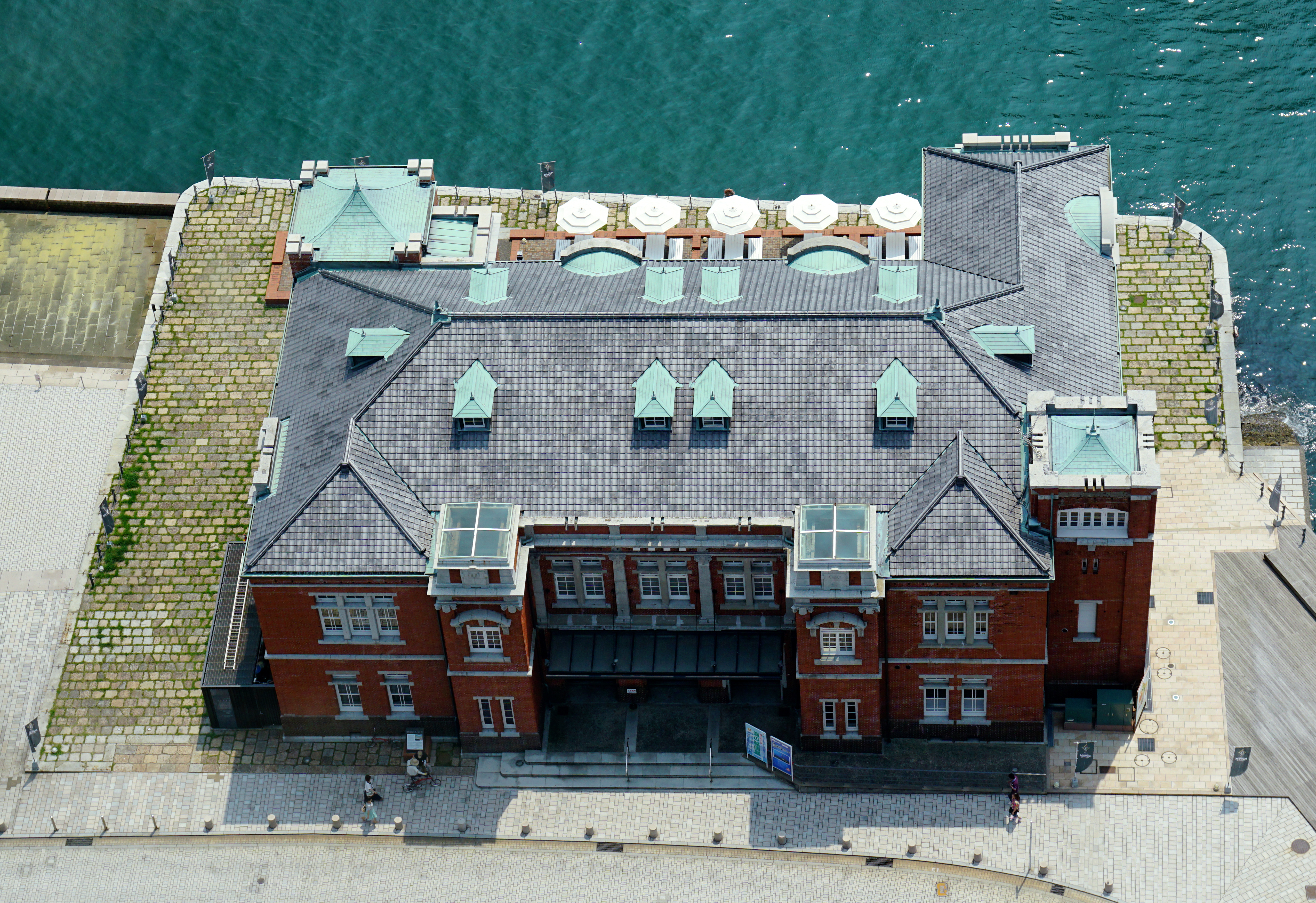 Former Moji Customs in Kitakyushu, Fukuoka prefecture, Japan.